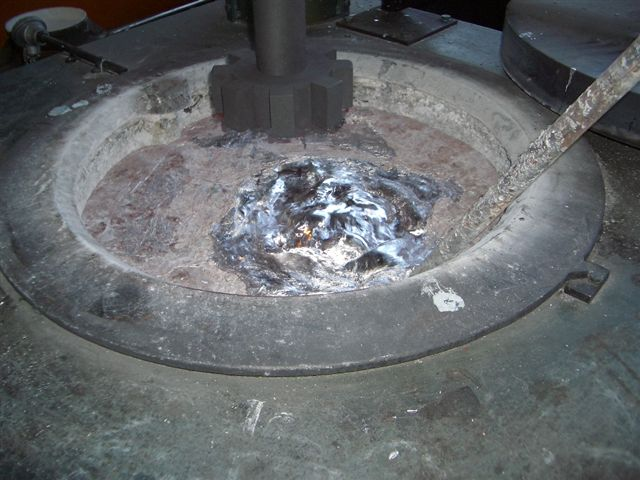 Impeller system in action at furnace with molten aluminium alloy